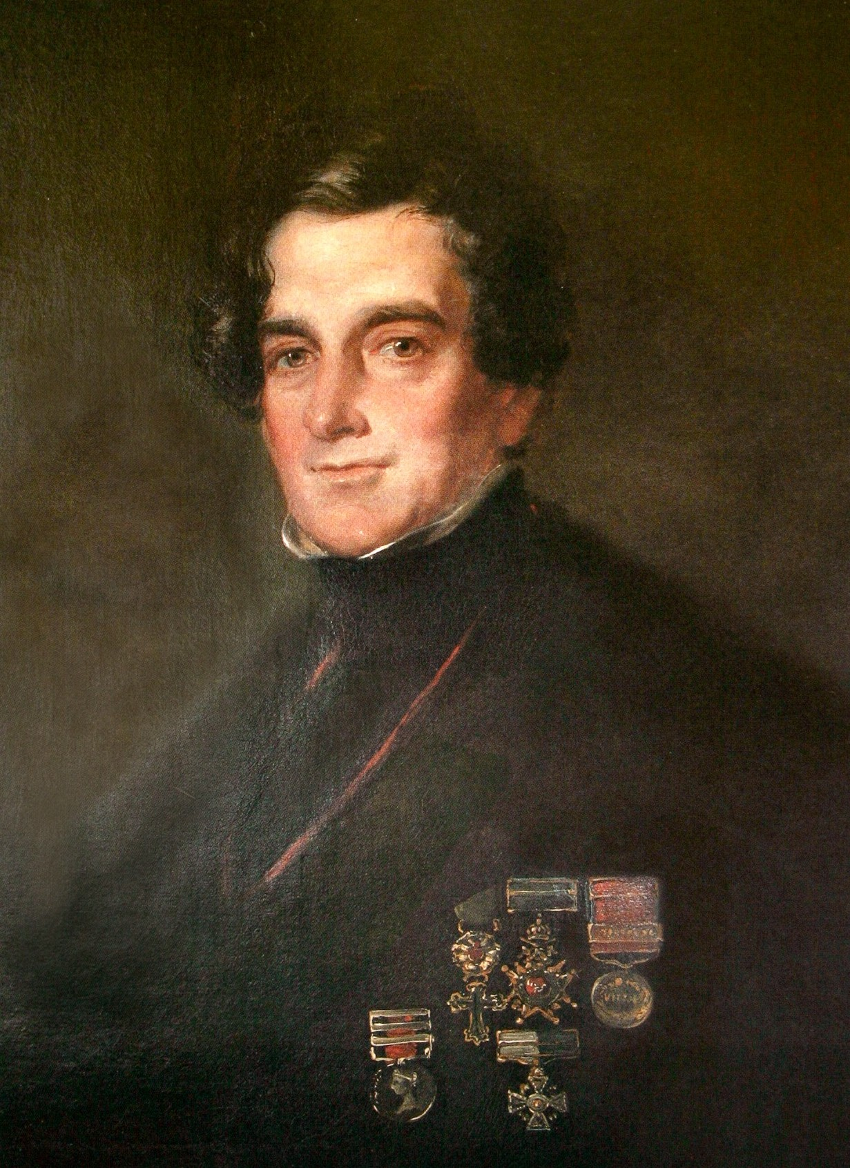 Charles Collier Michell (1793-1851)